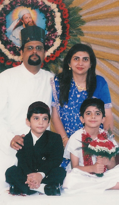 Modern Parsi family in traditional costume.